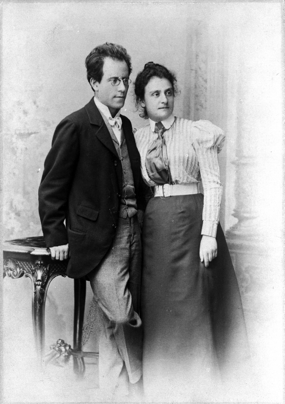 Gustav Mahler (1860–1911), Austrian composer and conductor, and his sister Justine Mahler (1868–1938).